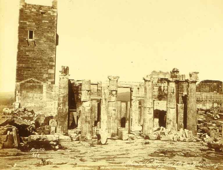 The now-demolished Frankish Tower (left) and the Athenian Propylaea.